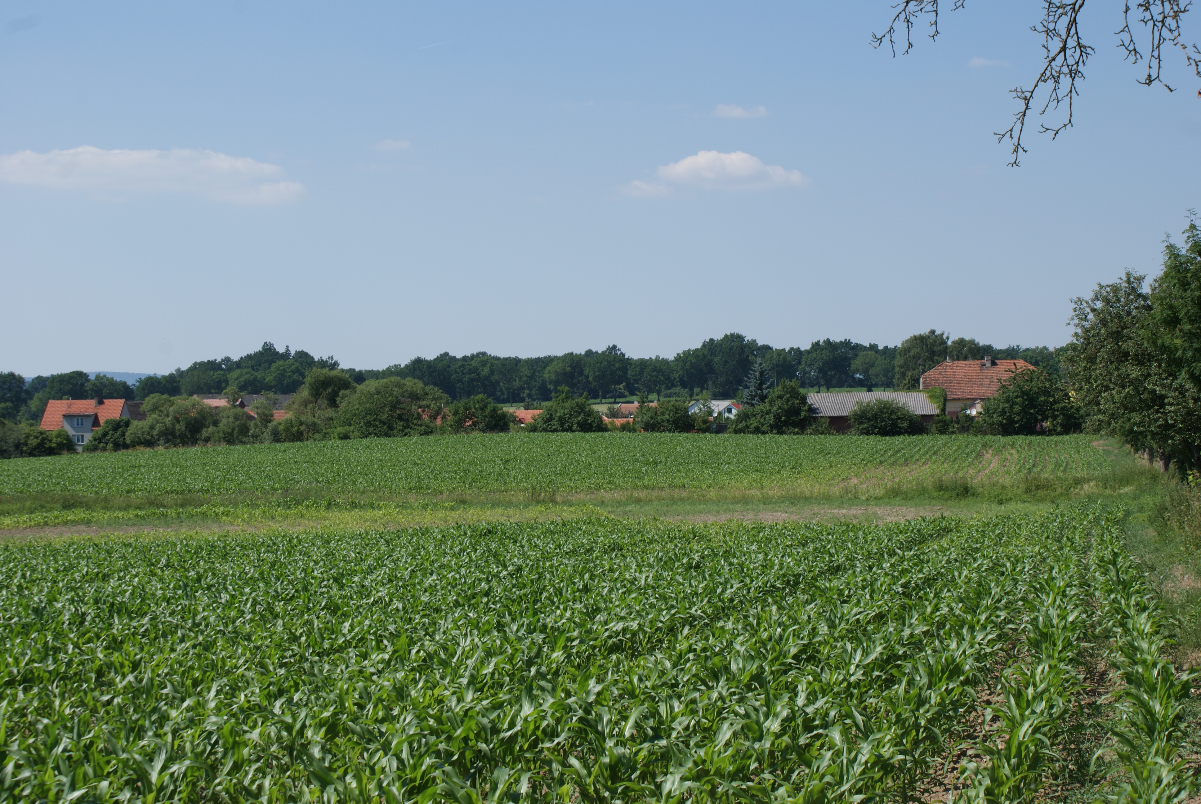 Horčápsko, a village in Příbram district, Czech Republic, general view. Česky: Horčápsko, okres Příbram, celkový pohled